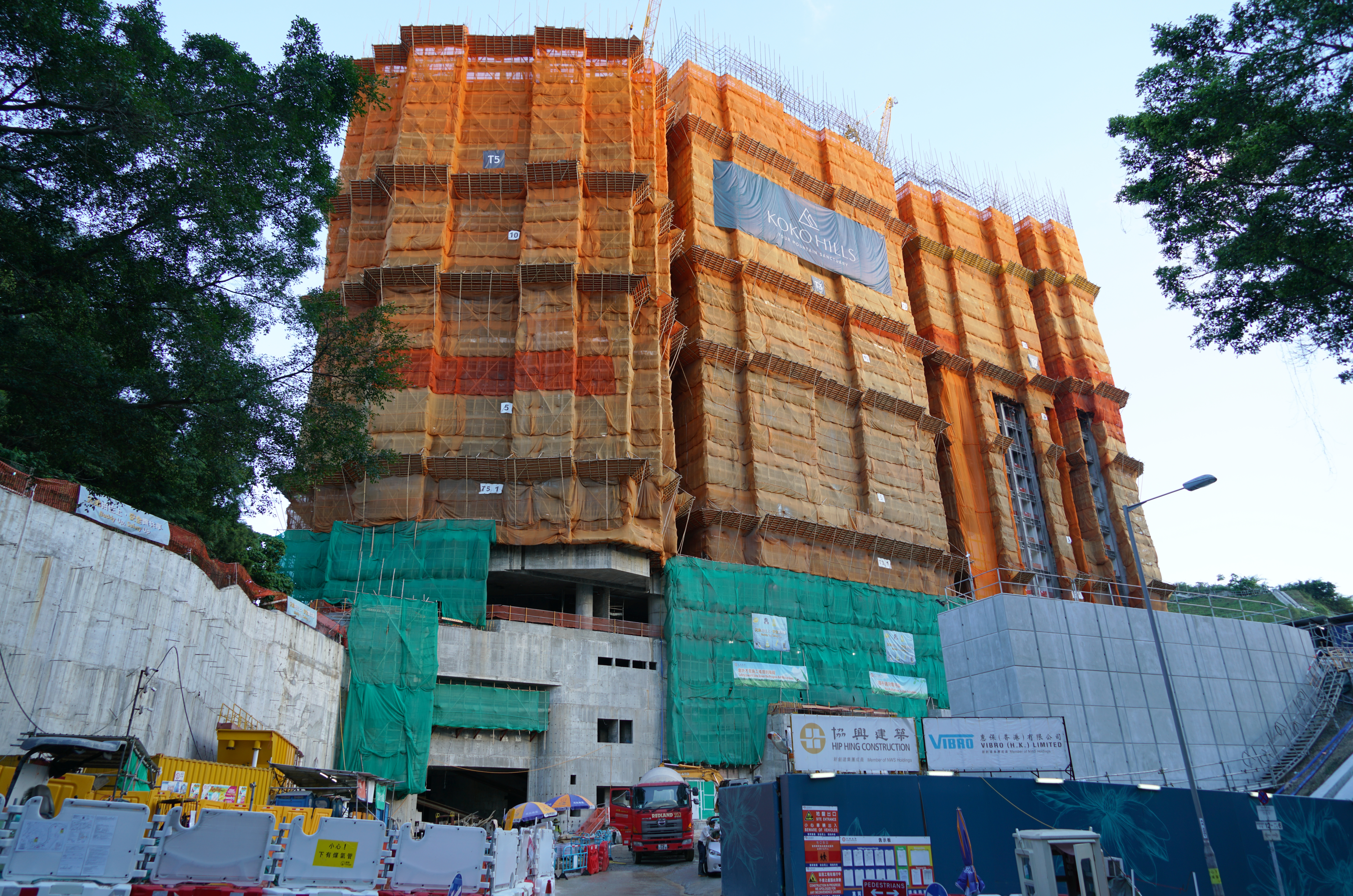 Koko Hills, Hong Kong.